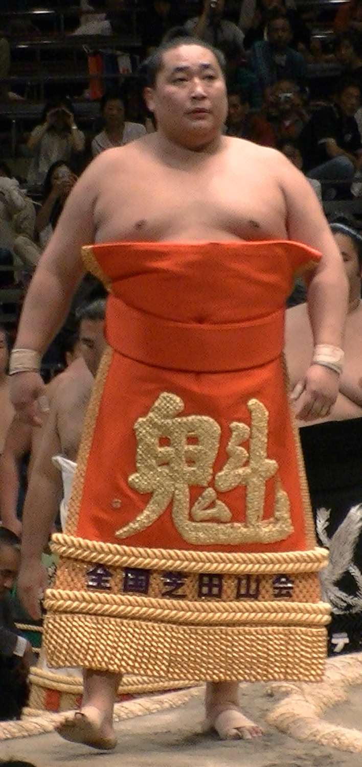 Taken at September 2014 tournament